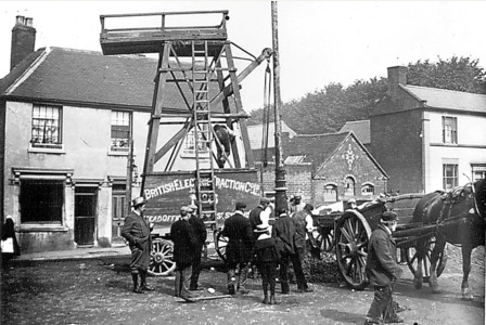 British Electric Traction horse-drawn platform being used to install overhead electrification for trams, Sedgley.Taken outside Egginton's shop.